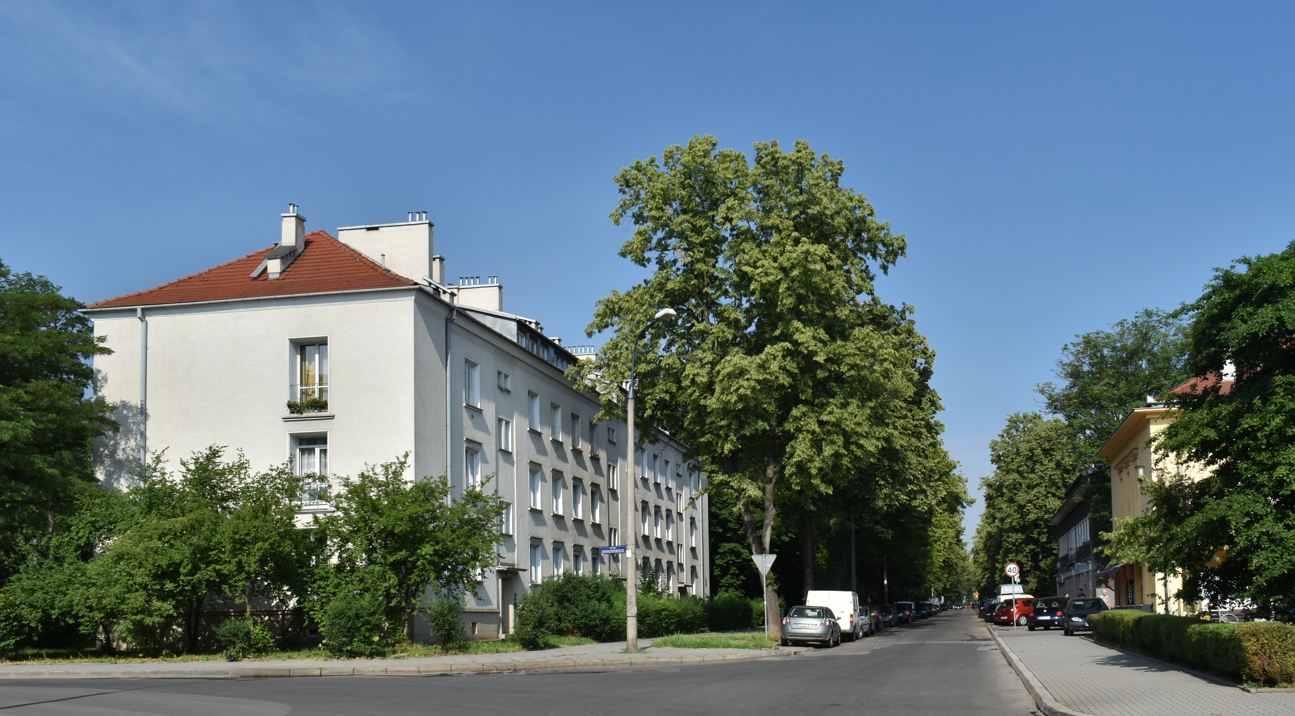 Nowa Huta first block of flats and first street, 14 osiedle Wandy, Nowa Huta, Krakow, Poland